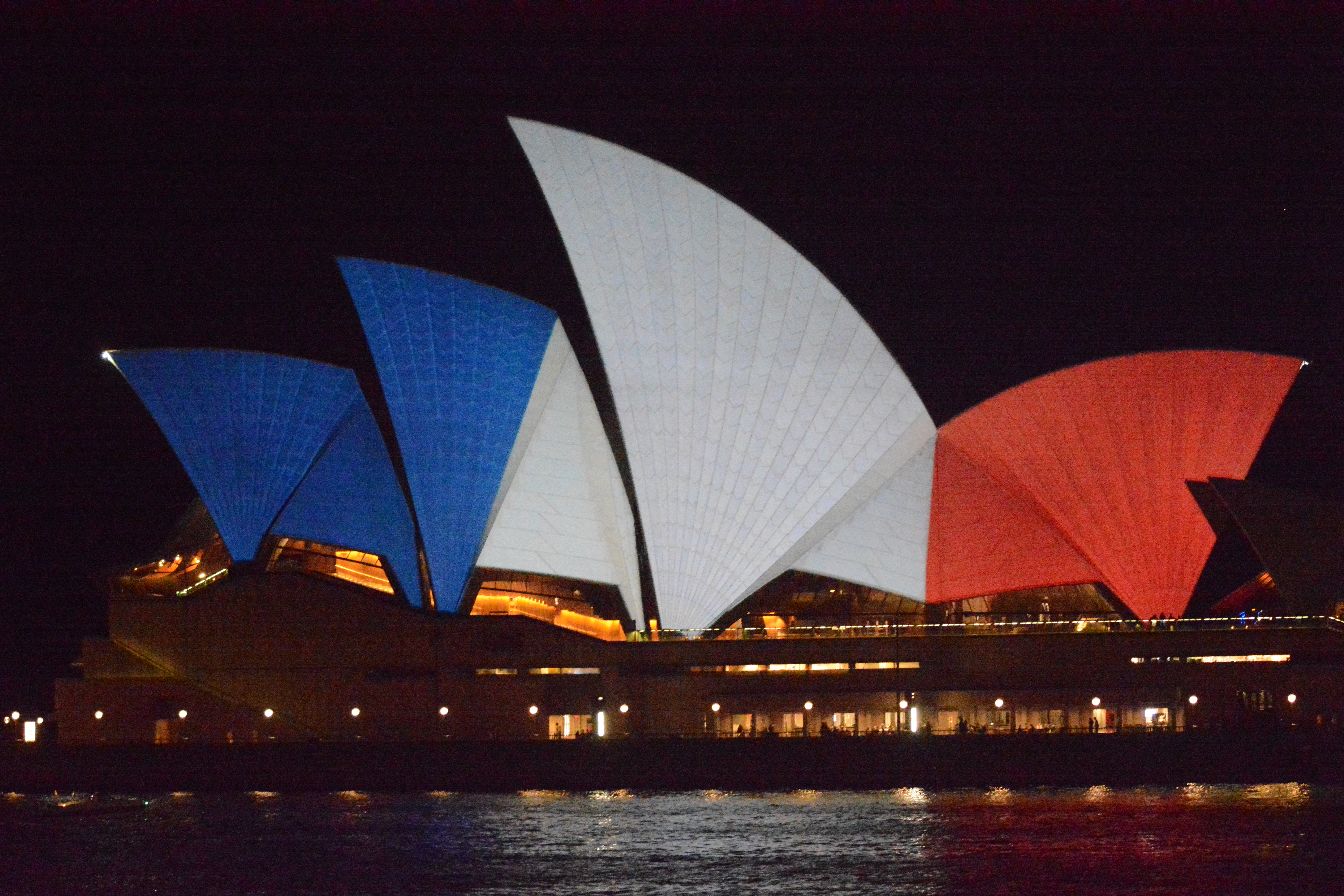 The Sydney Opera House lit in the colours of the French flag as a tribute to Paris during the November 2015 Paris attacks.